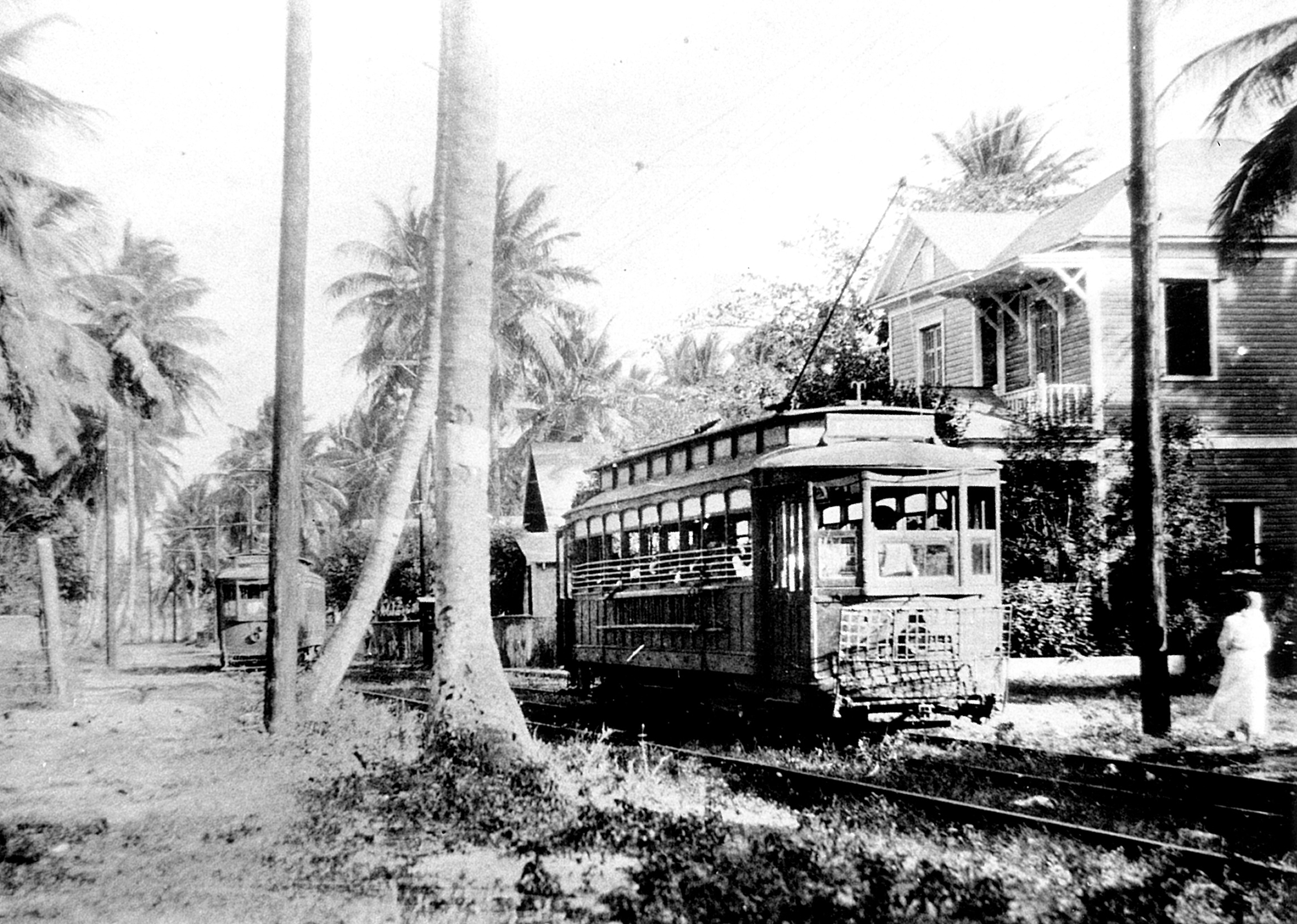 San Juan Tramway in Condado, Santurce, Puerto Rico